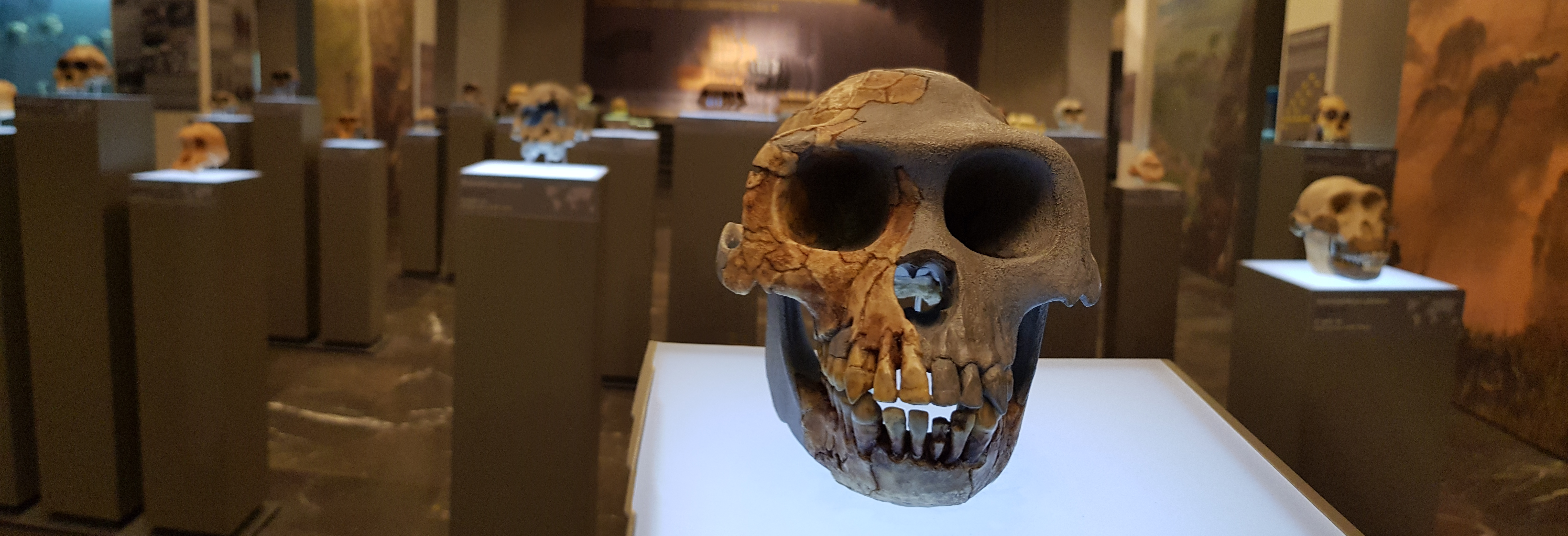 Georgian National Museum entrance